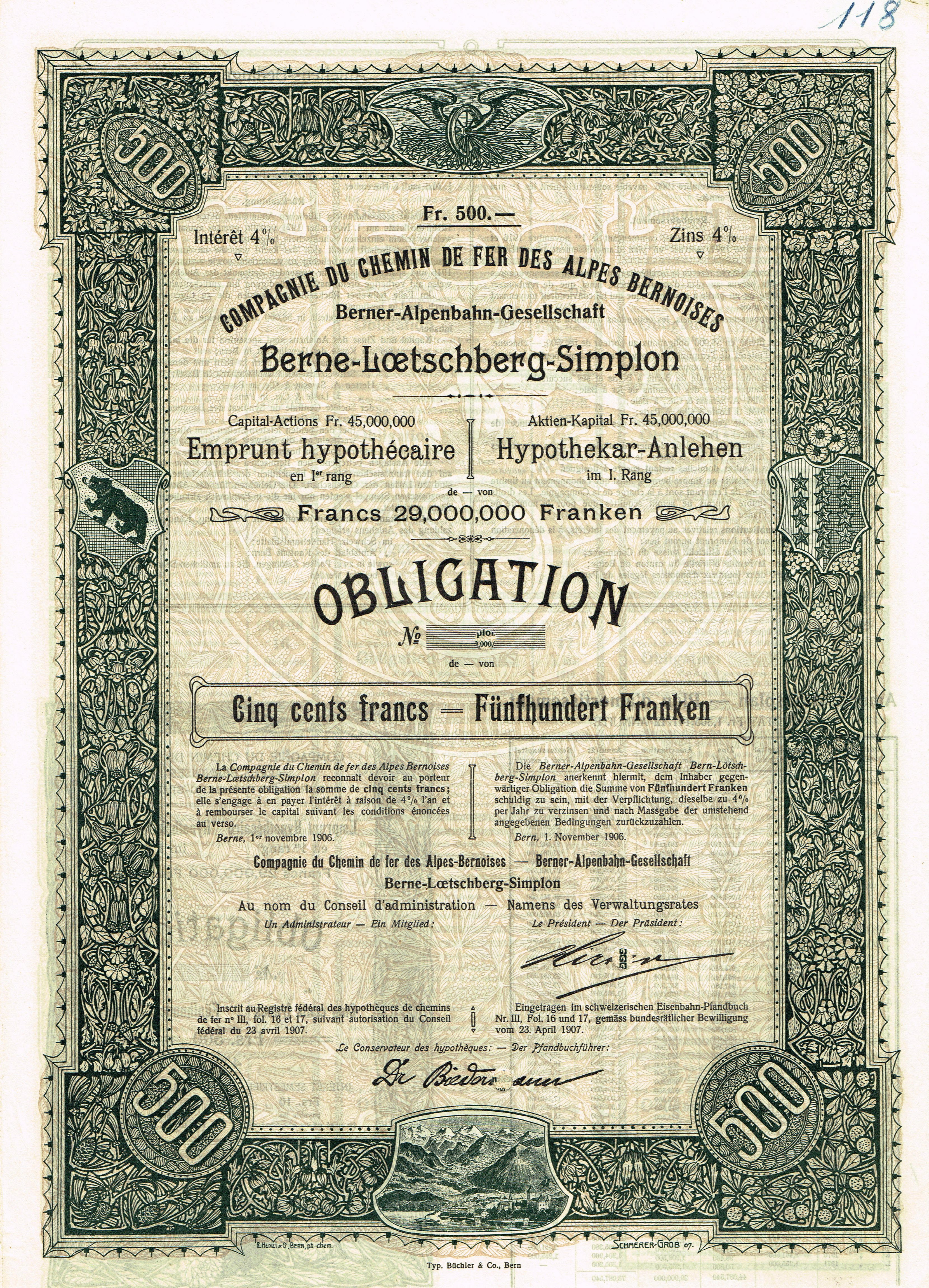 Bond of the Berner-Alpenbahn-Gesellschaft Berne-Loetschberg-Simplon, issued 1. November 1906